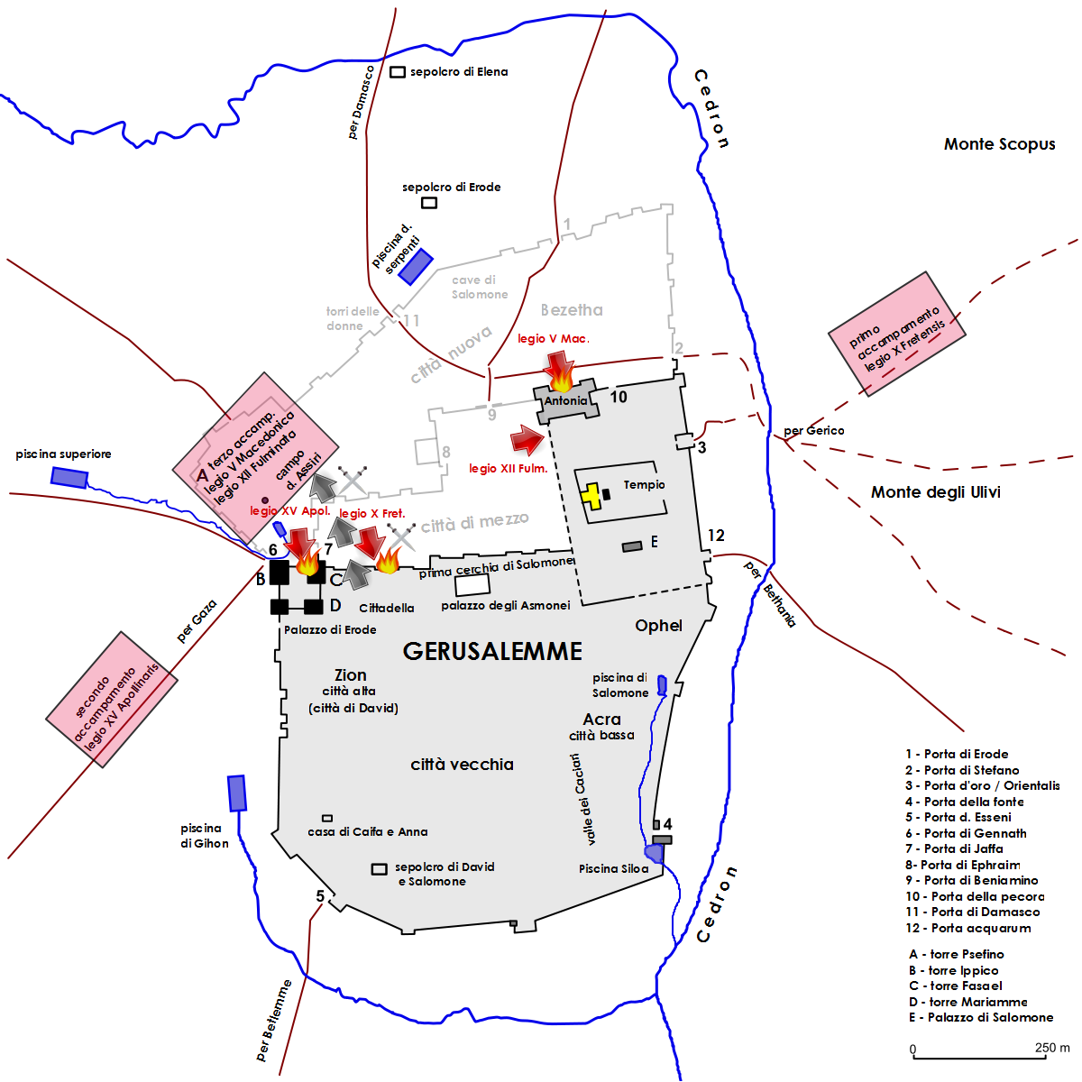 Jerusalem at the time on siege of 70 - 5th step